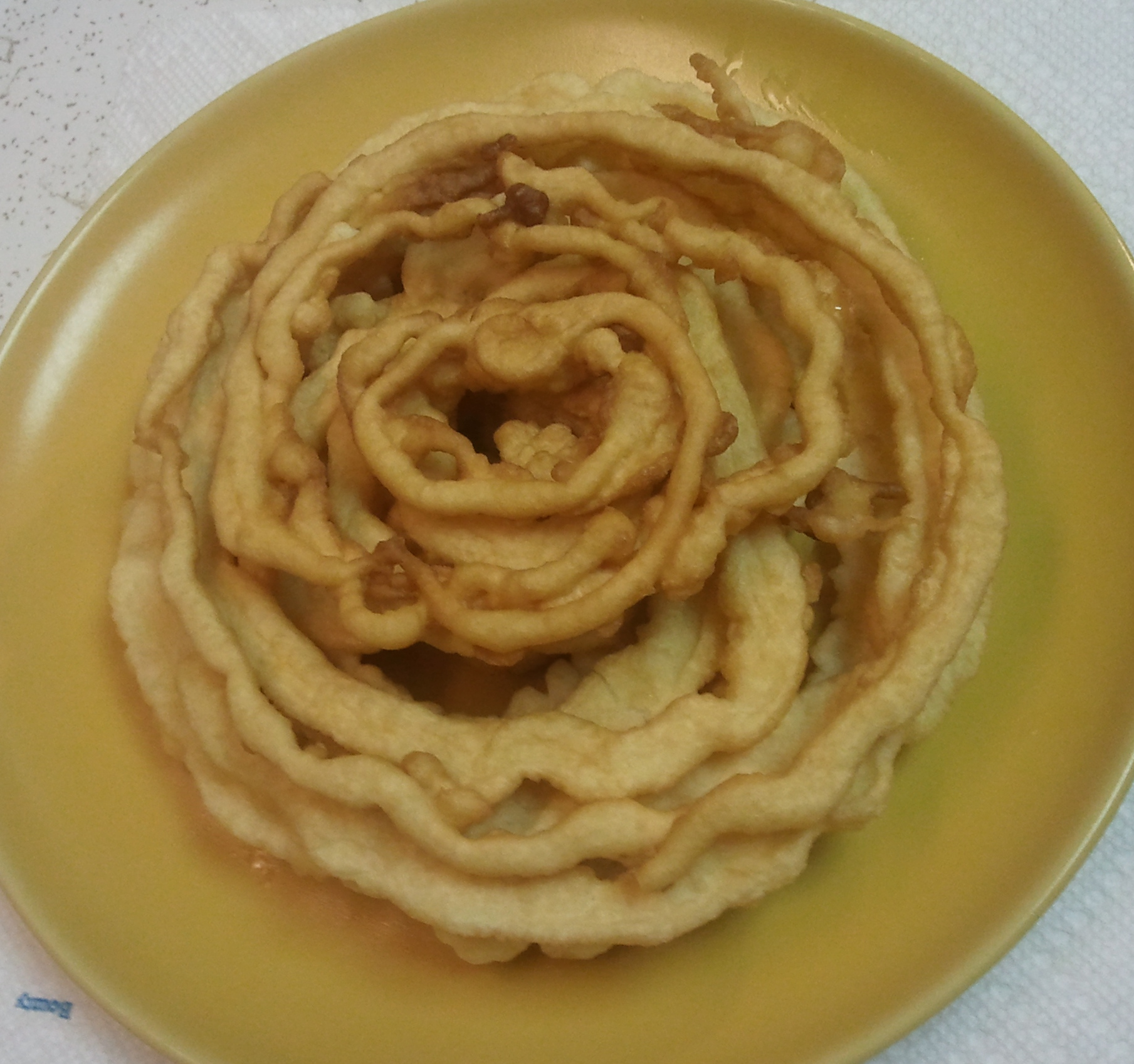 Leonese fisuelos, a dish made of a mixture of eggs, milk and flour deep fried in oil